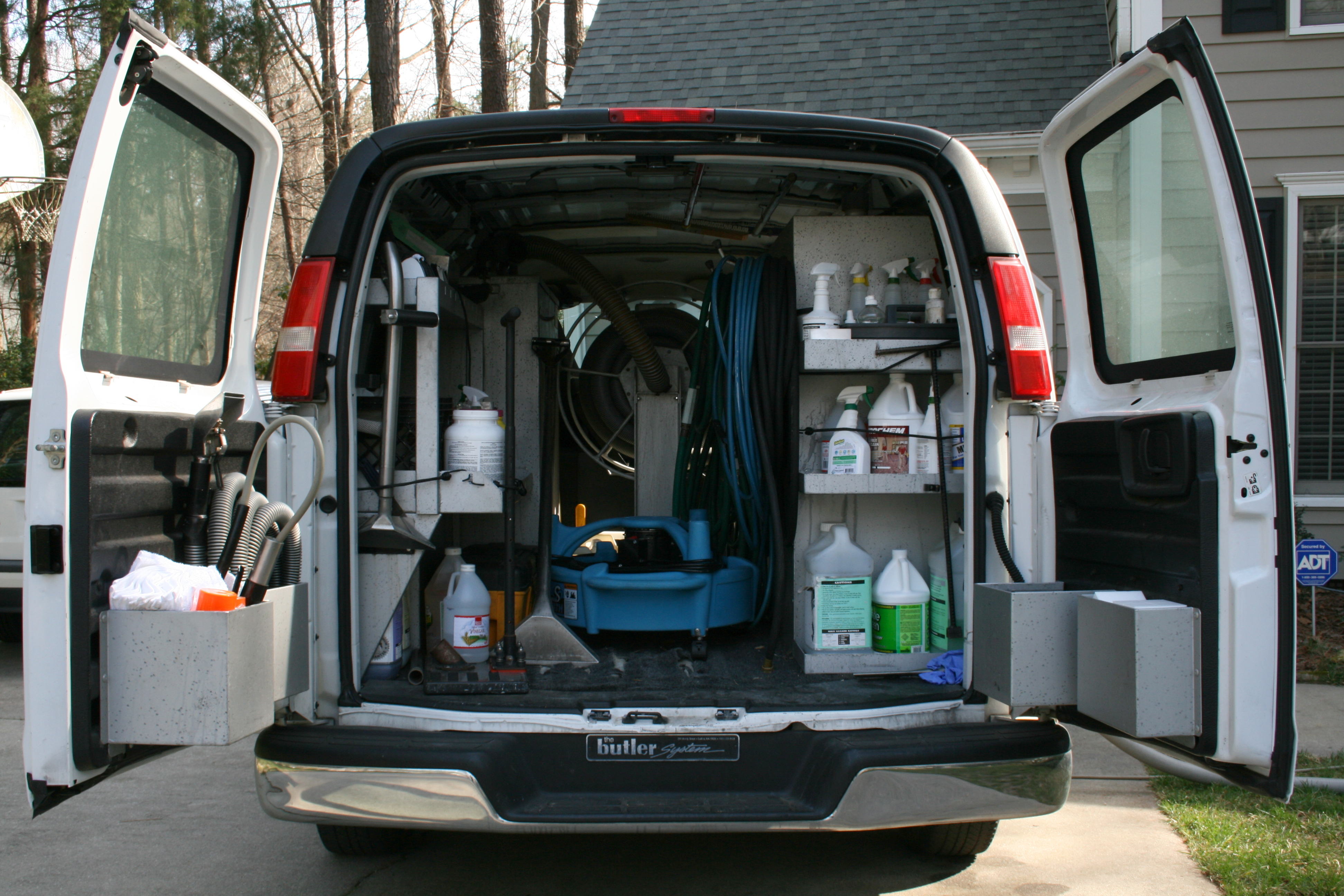 A look inside a van equipped for professional carpet cleaning, parked at a residence in Woodcroft, Durham, North Carolina.